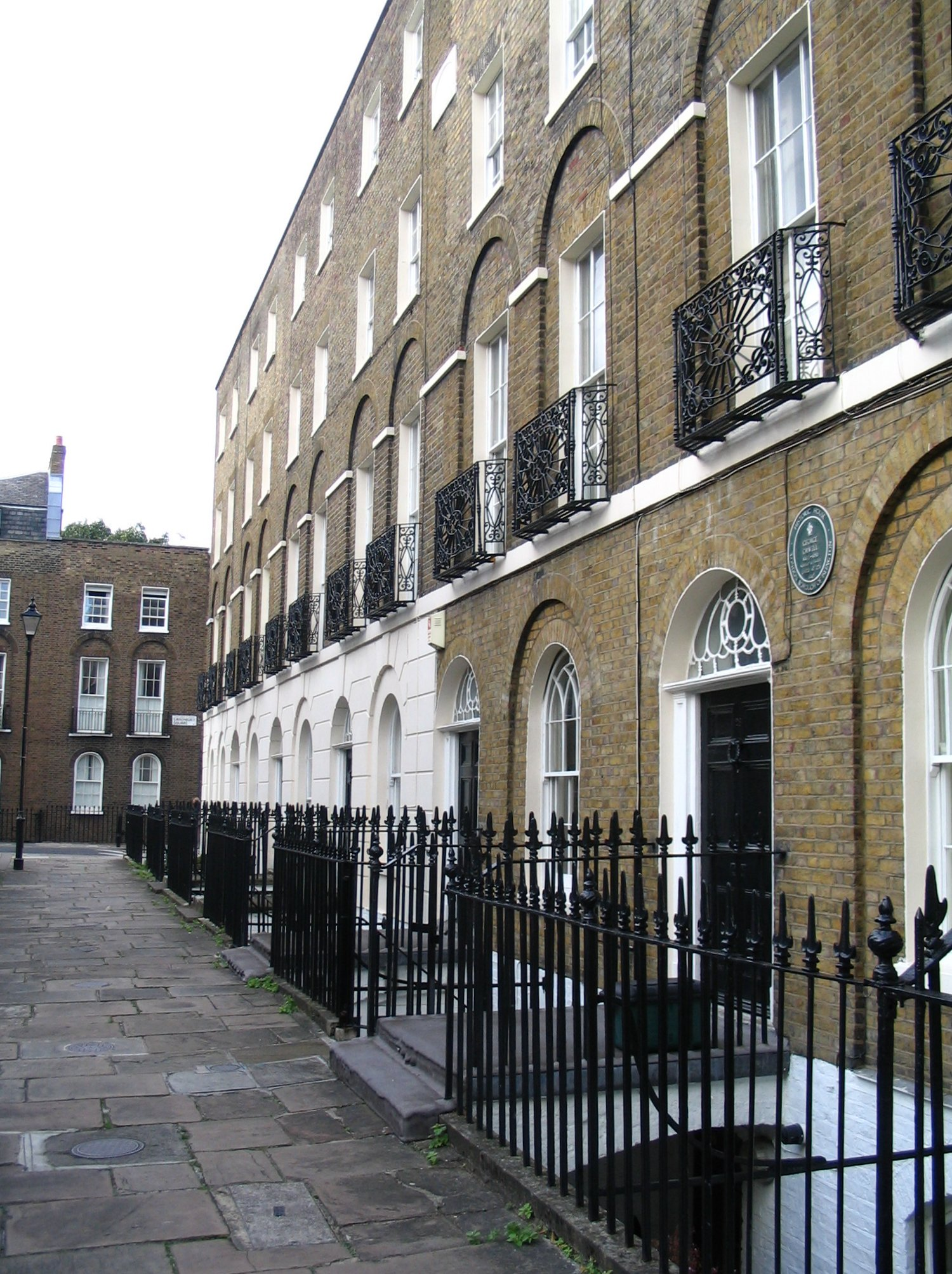 Canonbury Square east side